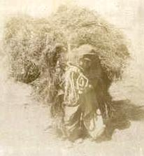 Daghestan. Avarian girl going for water / An old Avar woman.